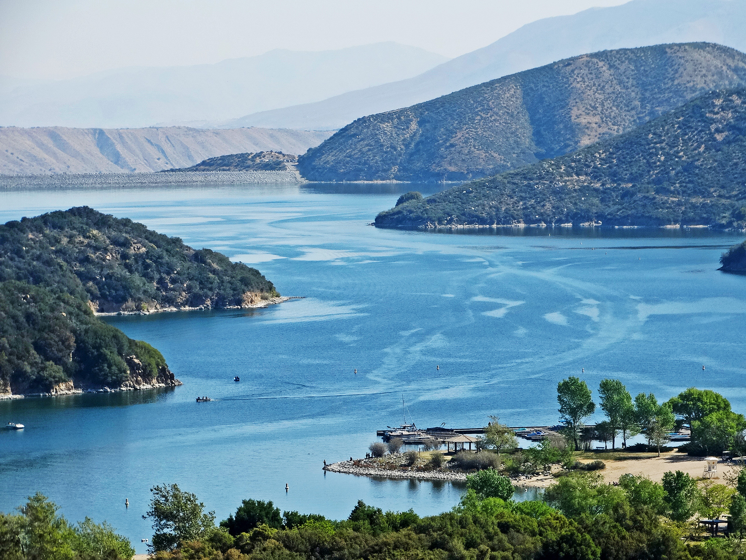 (1 in a multiple picture album) This is one of the lakes in our mountains and is a reservoir for our drinking water. We are in a mighty drought right now, so we were encouraged to see that Silverwood Lake has not been drawn down very much . . . yet.